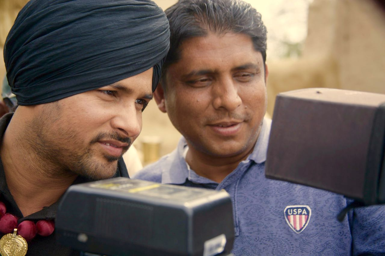 Director Simerjit Singh With Actor Amrinder Gill on the set of Punjabi film Angrej.